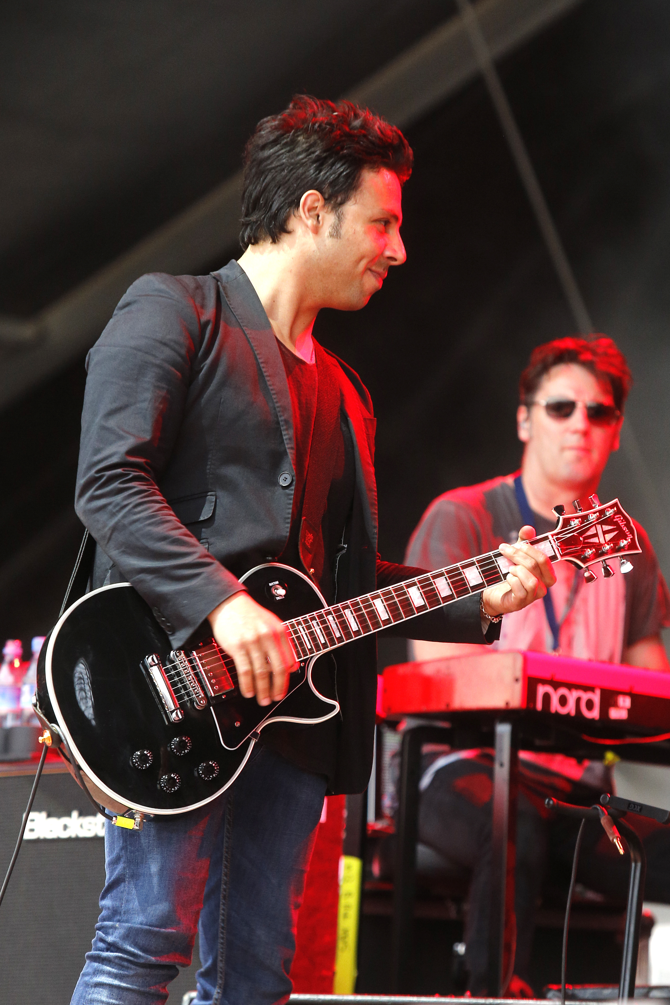 Adam Zindani, guitarist of Welsh band Stereophonics at Nova Rock-Festival 2013.